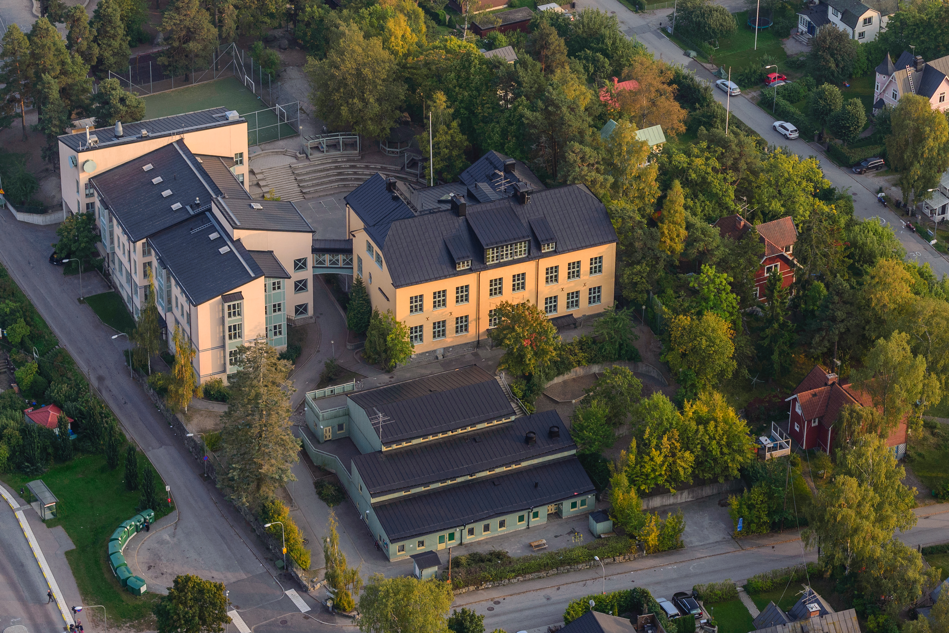 Bromstens skola (school). Bromsten, Stockholm.